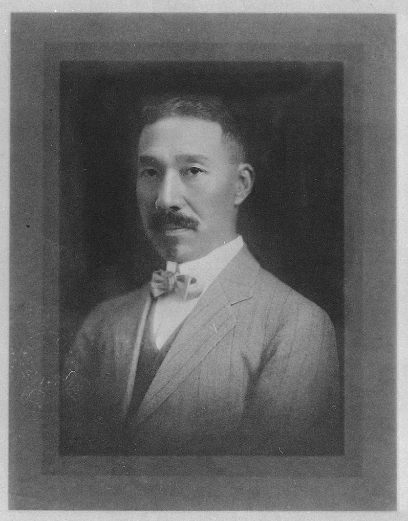 Portrait of Takekoshi Yosaburo (竹越与三郎, 1865 – 1950)